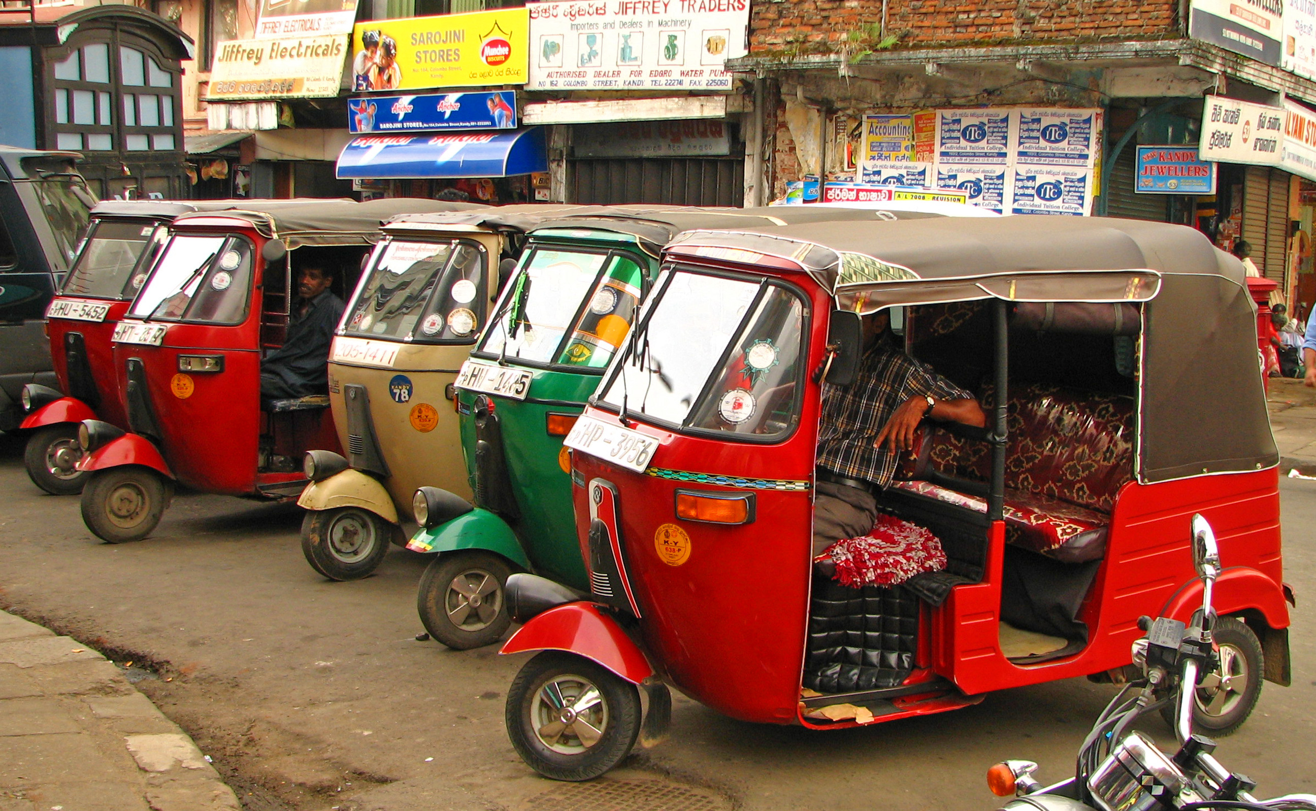 Colourful tuk-tuks waiting for fares in Kandy. Unlike India and Thailand, the tuk-tuks here come in a variety of candy colours including blue and pink not captured in this photo. I like it; they brighten the streetscapes.